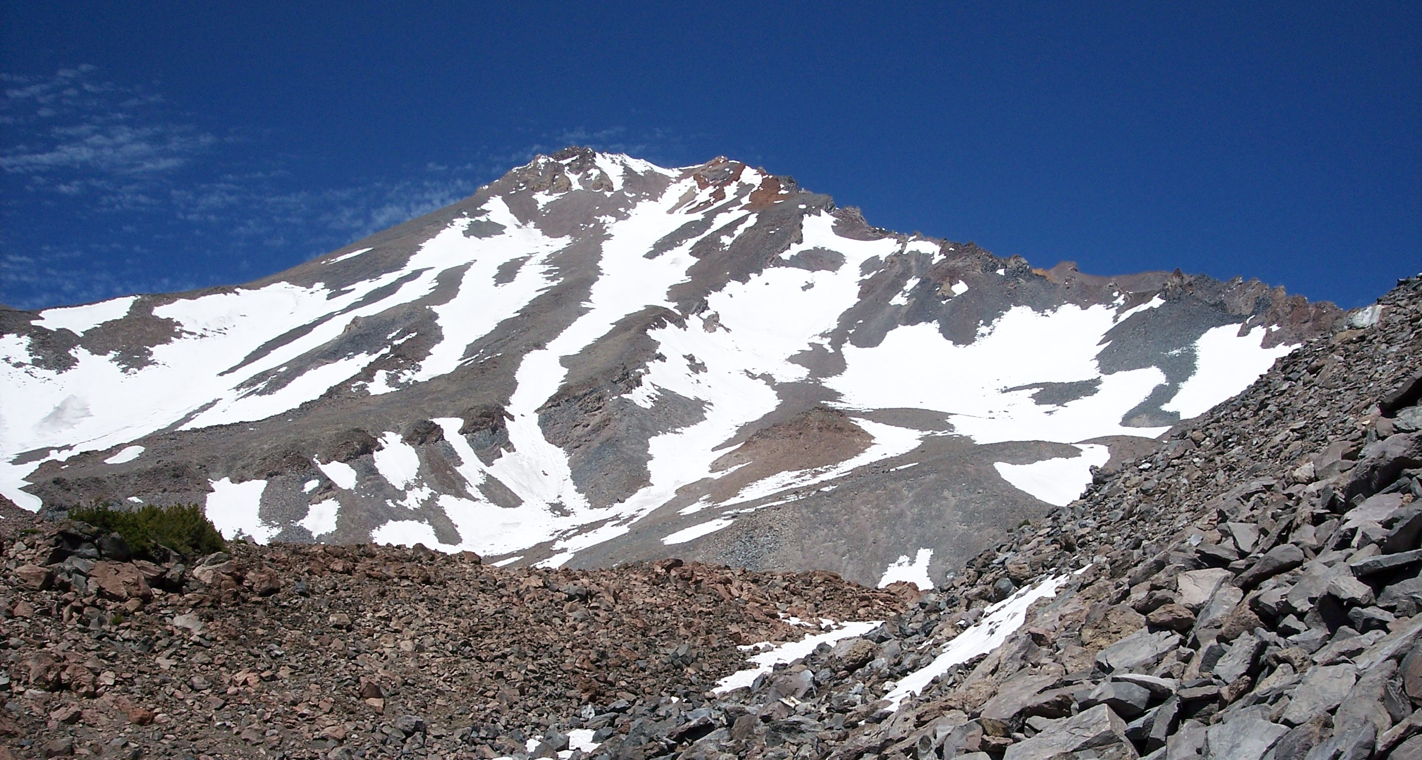 The west face of Mount Shasta. Photo taken from Hidden Valley. Photo by Jim Heaphy.